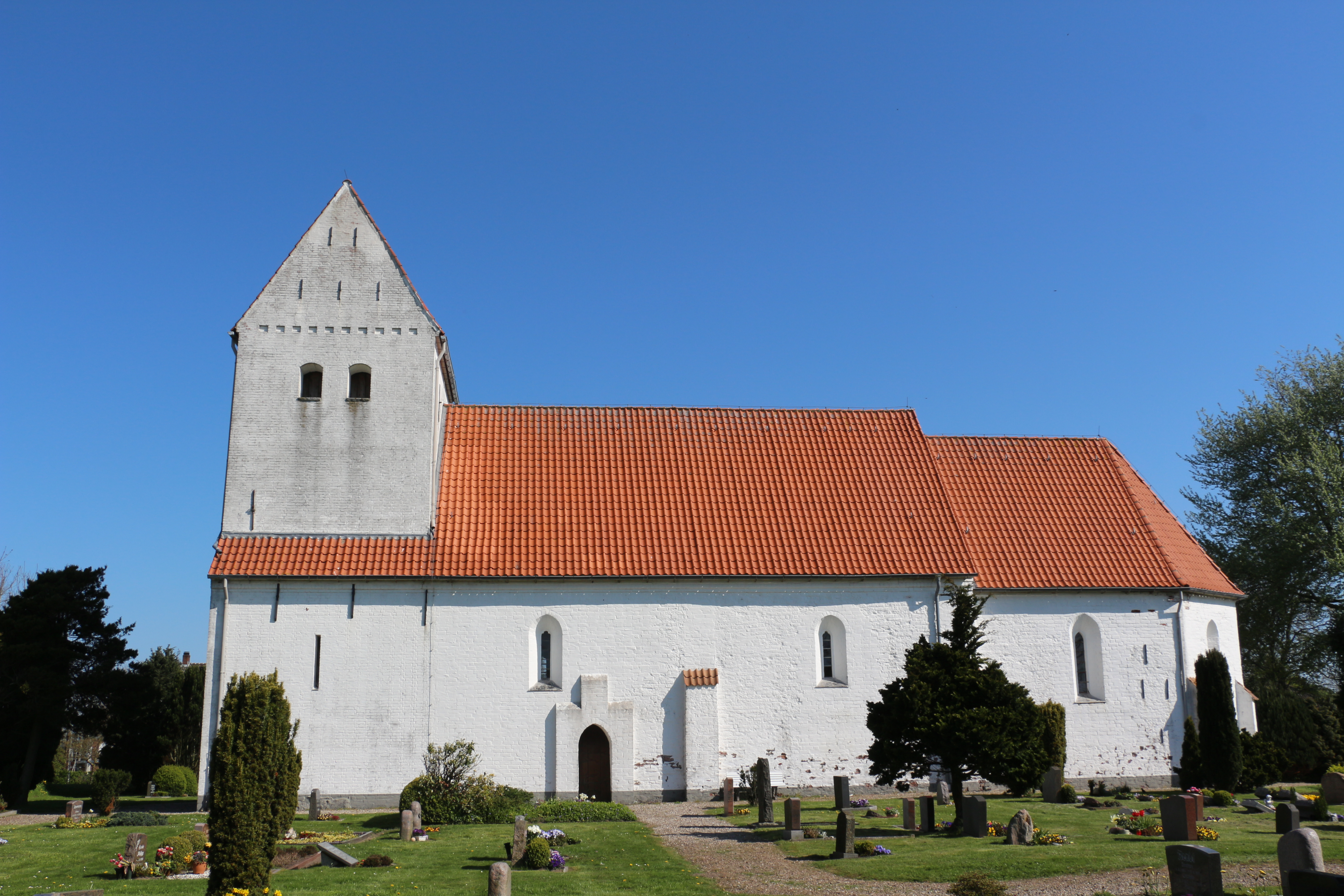 Die Braderuper Kirche von Süden This is a photograph of an architectural monument. .1